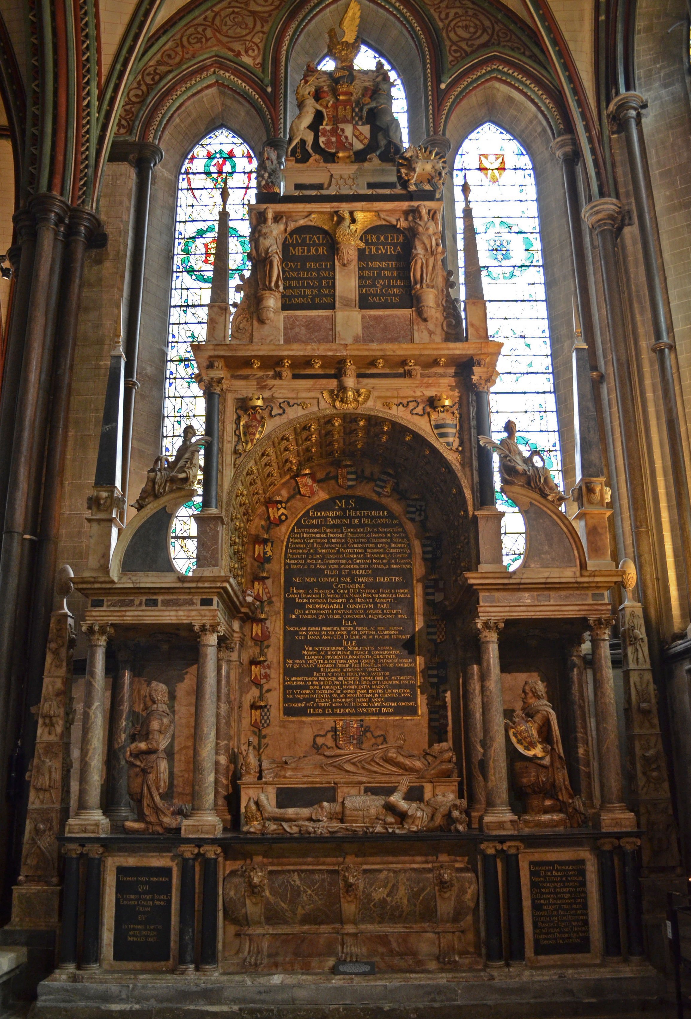 Monument in Salisbury Cathedral to Edward Seymour, 1st Earl of Hertford (1539-1621) and his wife Lady Catherine Grey (d.1586) (sister of Lady Jane Grey "Nine Days Queen"). For inscription see Harris, James, Copies of the Epitaphs in Salisbury Cathedral, Salisbury, 1825, pp.35-40[1]